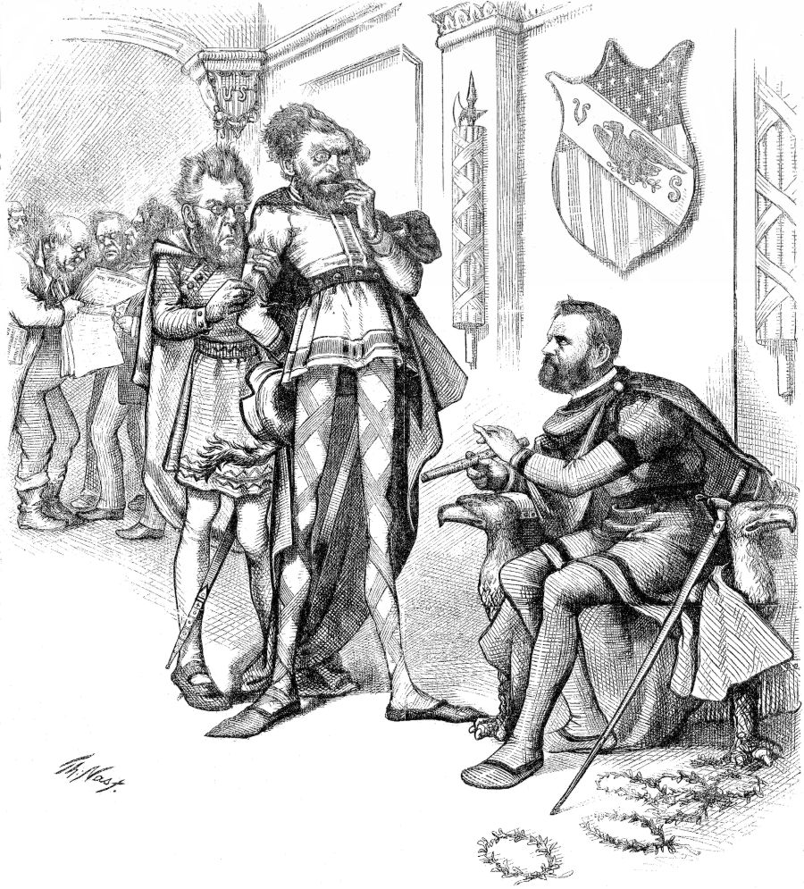 With a caption taken from Shakespeare's play Hamlet, U.S. President Ulysses S. Grant, seated in his throne, asks a skeptical Senator Carl Schurz (with a concerned Senator Thomas W. Tipton standing beside him) to play on a flute which he proffers.